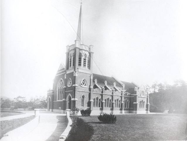 Saint Andrew's Church, Hong Kong